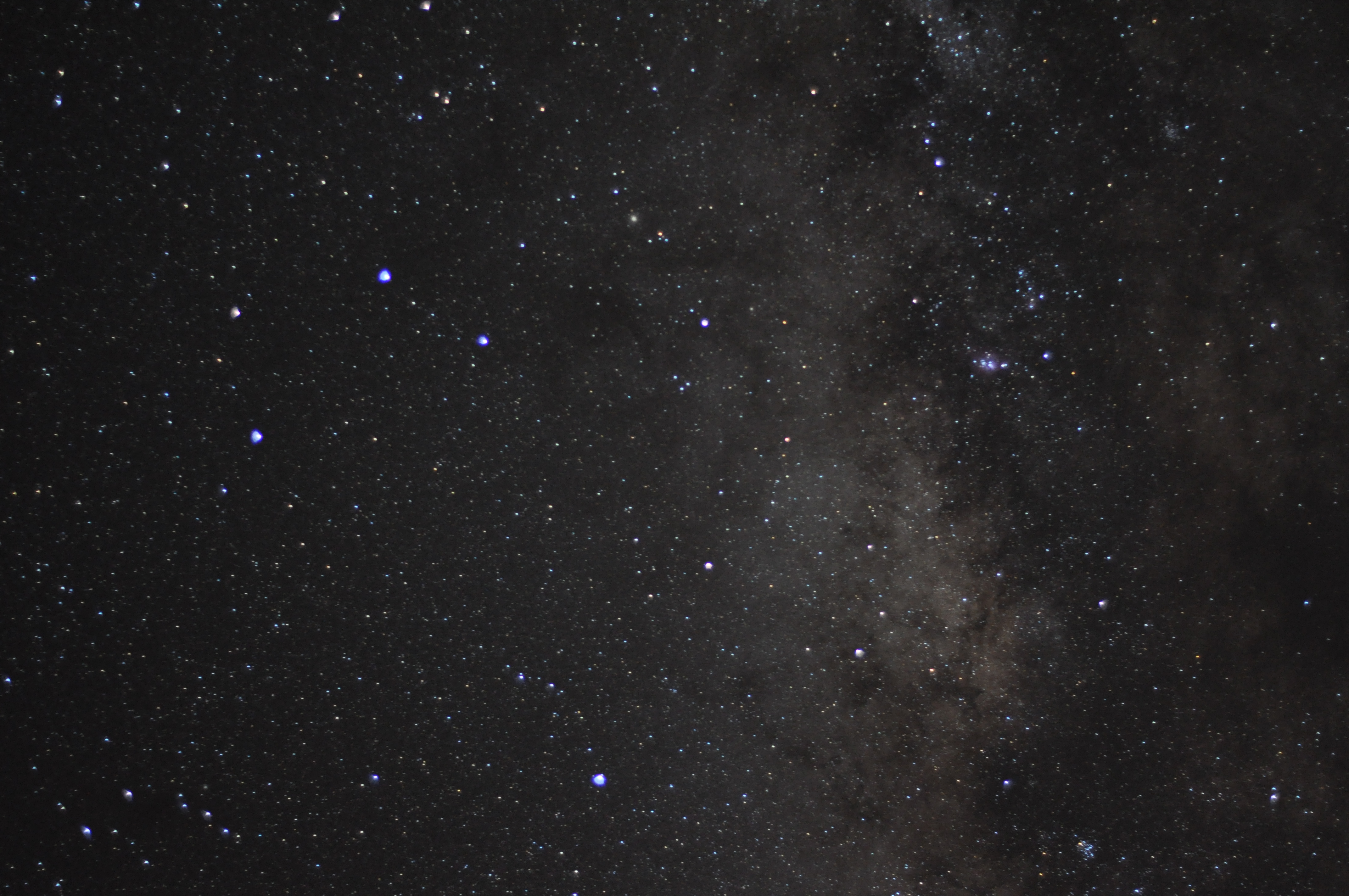 The principal stars of the constellation Sagittarius, as seen from the northern hemisphere, in a long exposure.